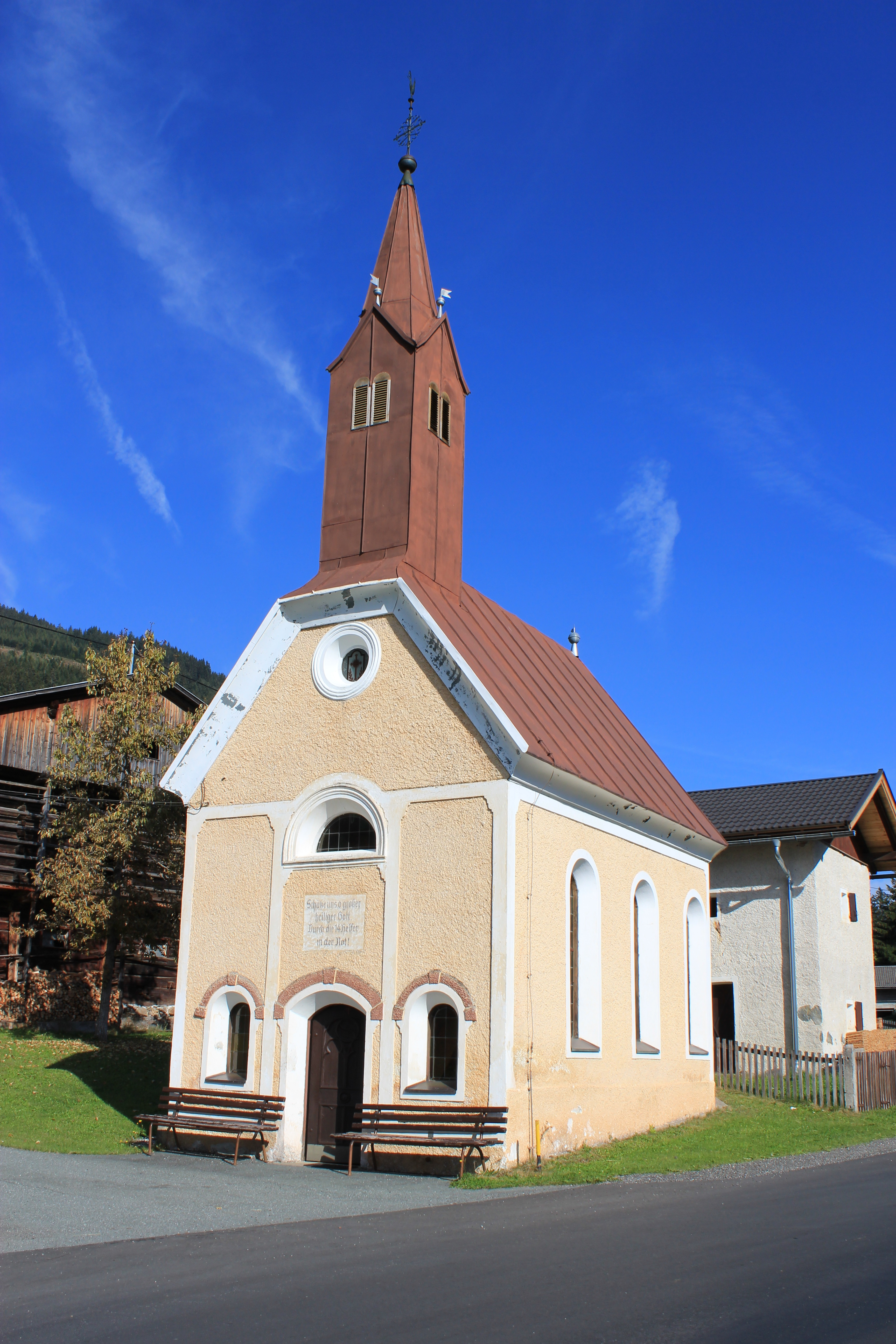 Fourteen-Holy-Helpers-Chapell in Wiesen in the community Lesachtal- detail